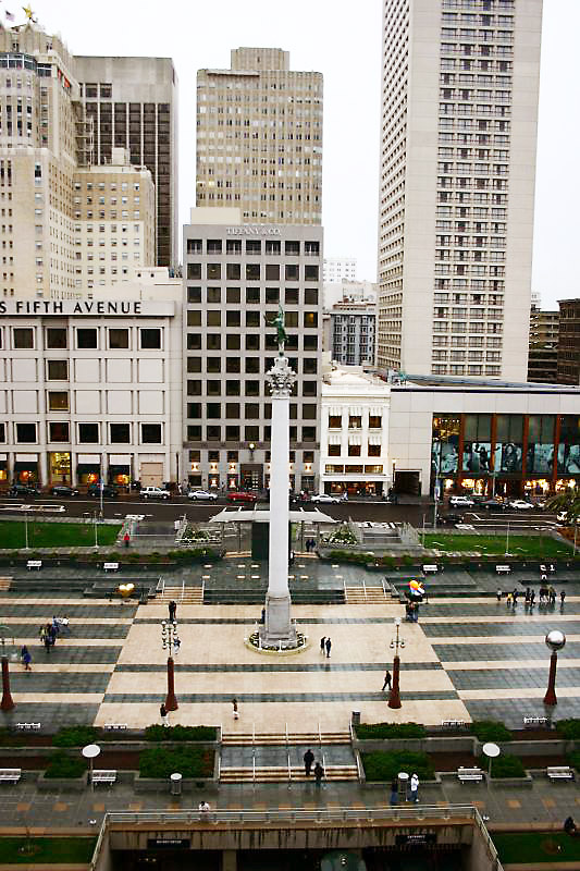 originally uploaded to wikipedia: heres the original summary: Kelvin Kay user:Kkmd